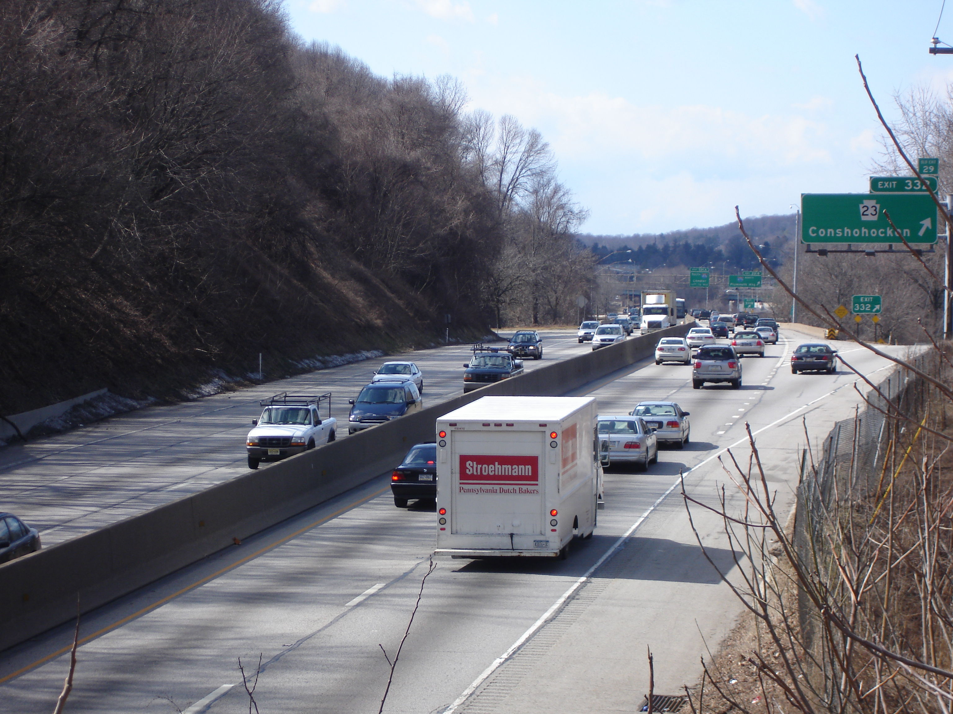 The Schuylkill Expressway in West Conshohocken